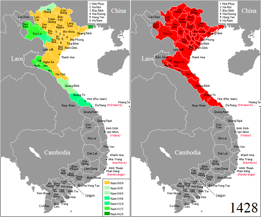 Vietnam in 1407.